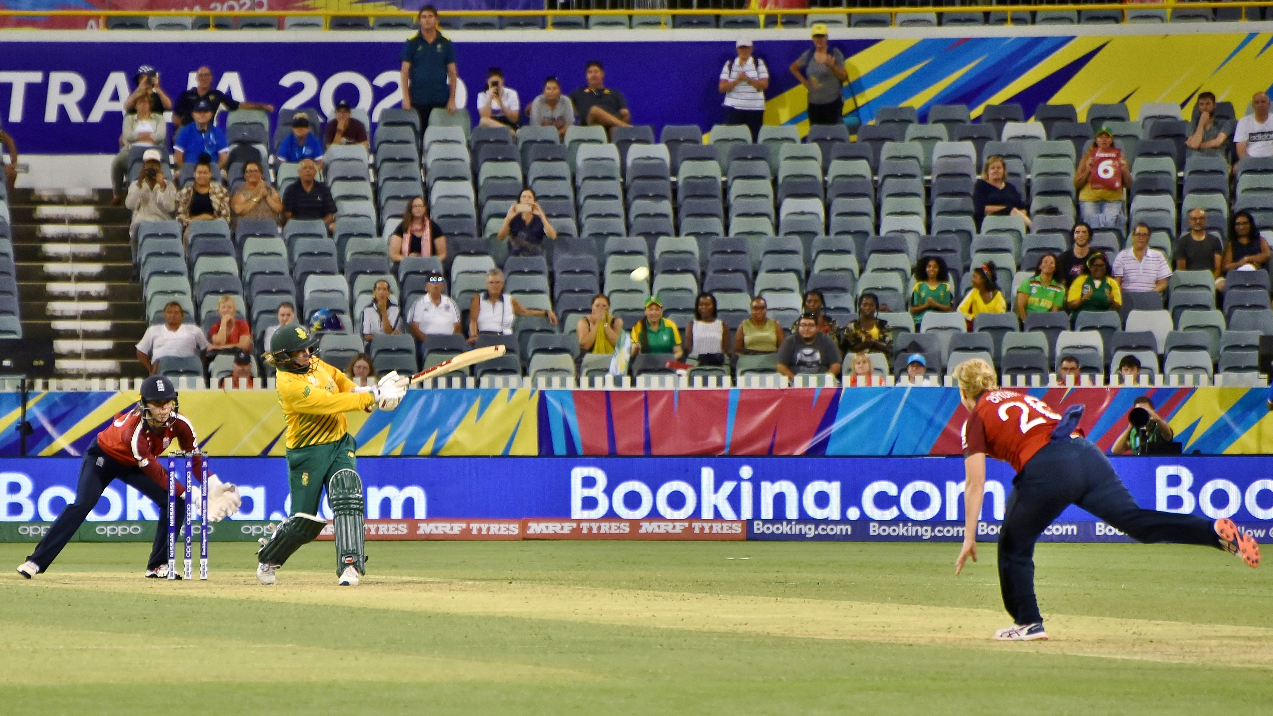 Mignon du Preez hits the winning runs that ultimately knocked England out of the tournament, at the end of the England versus South Africa 2020 ICC Women's T20 World Cup match at the WACA Ground in Perth, Australia. The bowler is Katherine Brunt, and the wicket-keeper is Amy Jones.